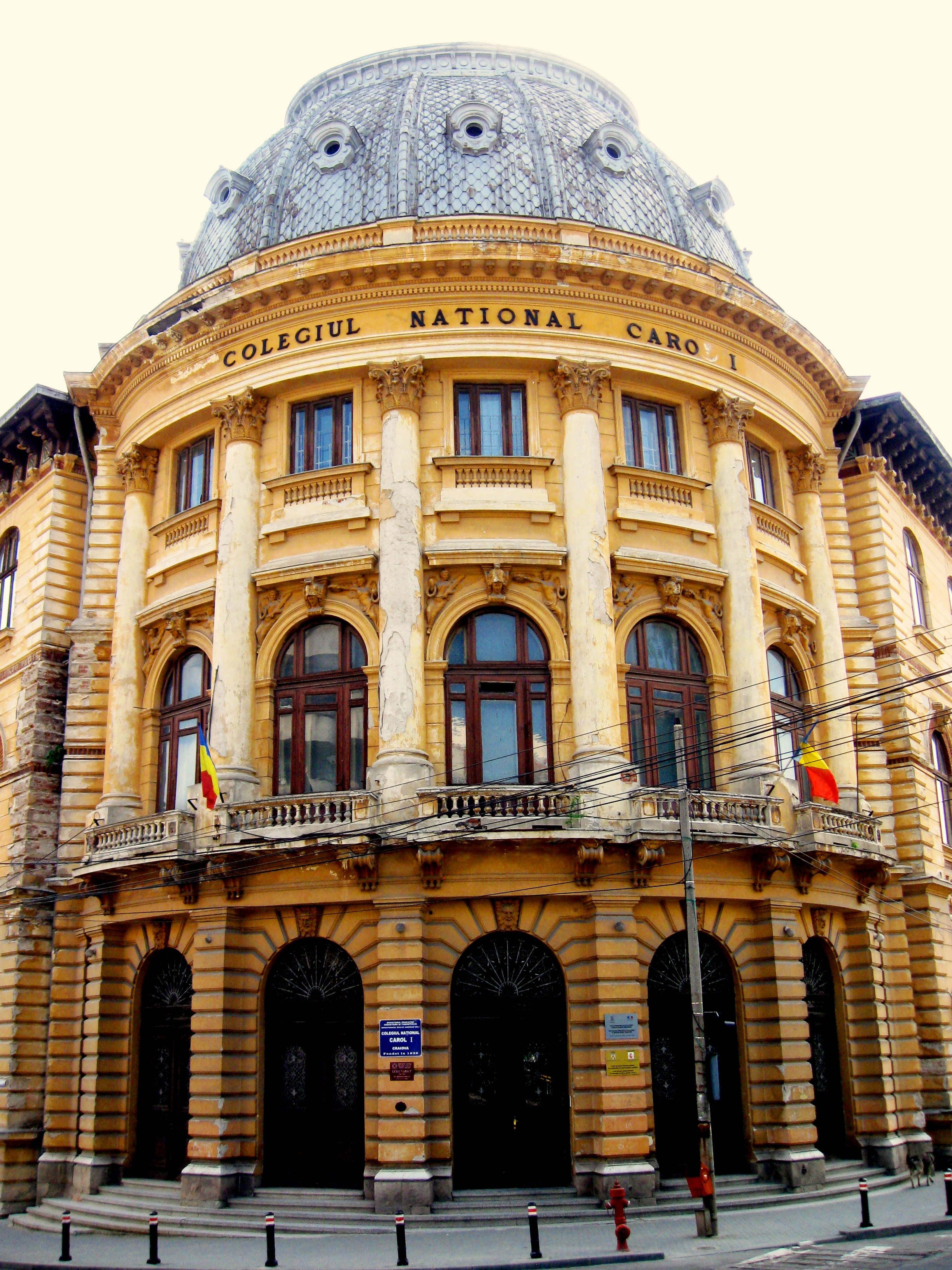 Carol I High School, in Craiova, Romania. Main hall, seen from the intersection of Ion Maiorescu and Mihai Viteazul Streets.